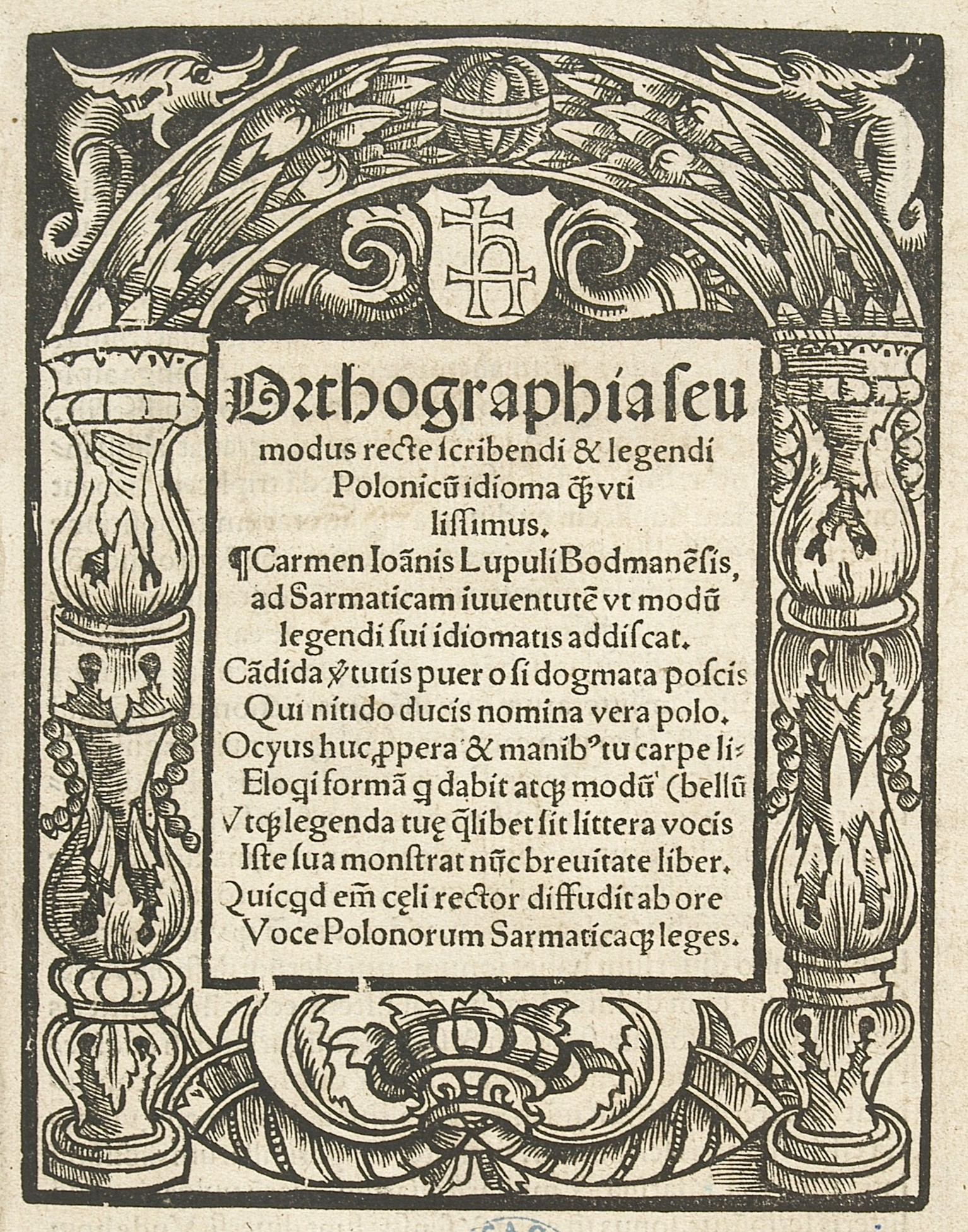 Title page of "Ortographia" by Stanisław Zaborowski, edition 1518.